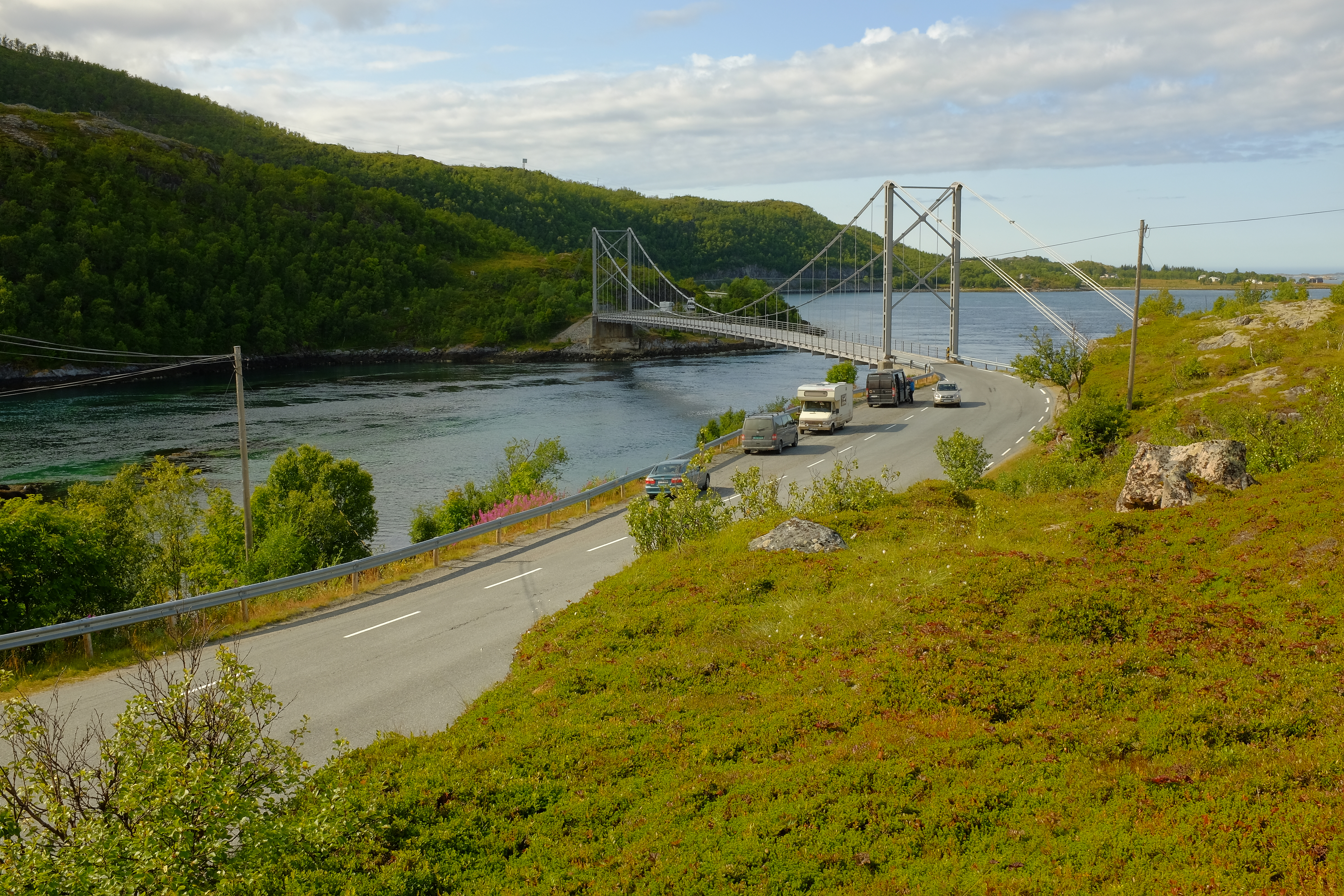 Trongstraumen Bridge is a 140 meter long suspension bridge on County Road 86 in Berg municipality in Troms.